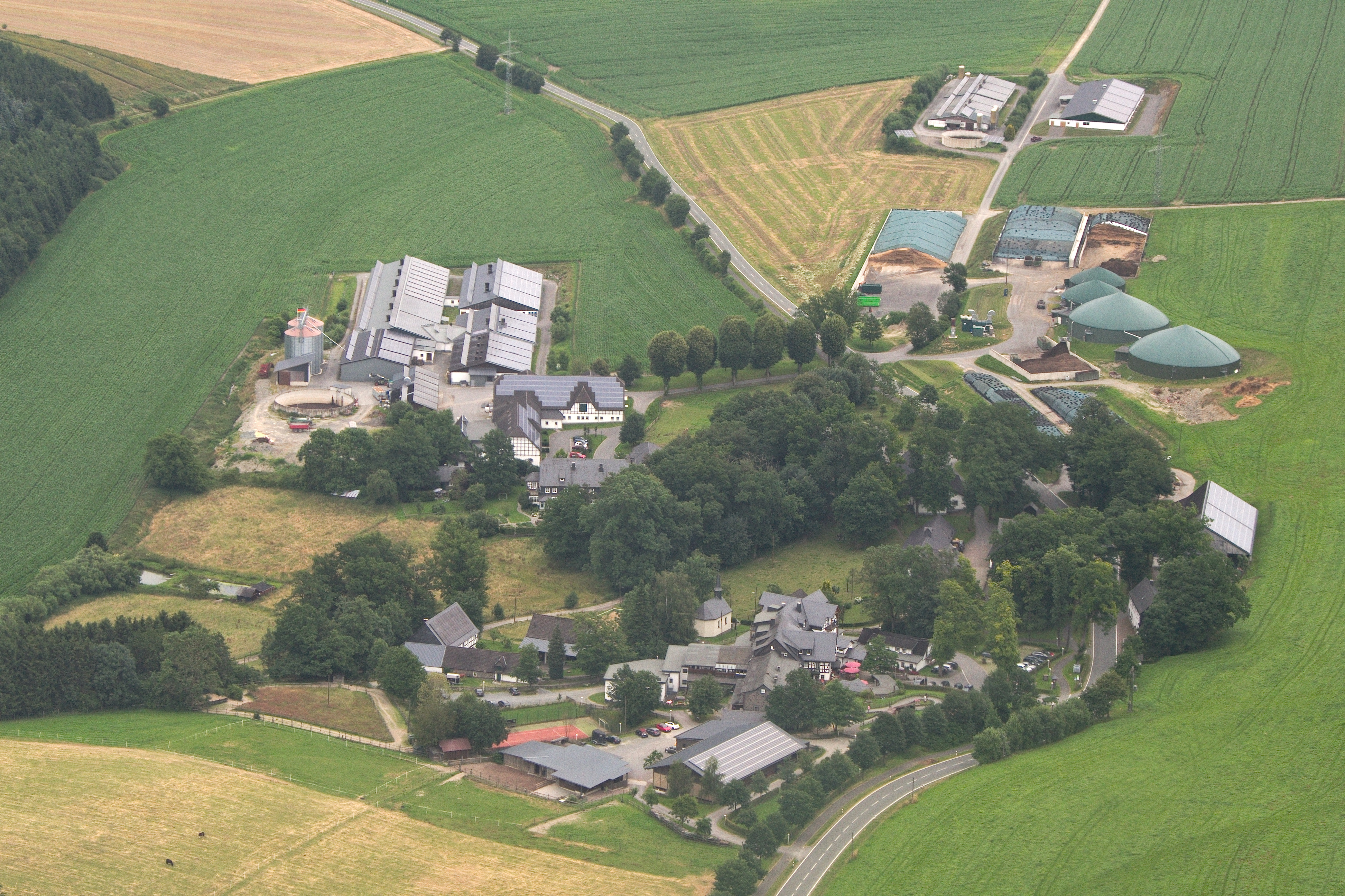 Ebbinghof, as seen from the West